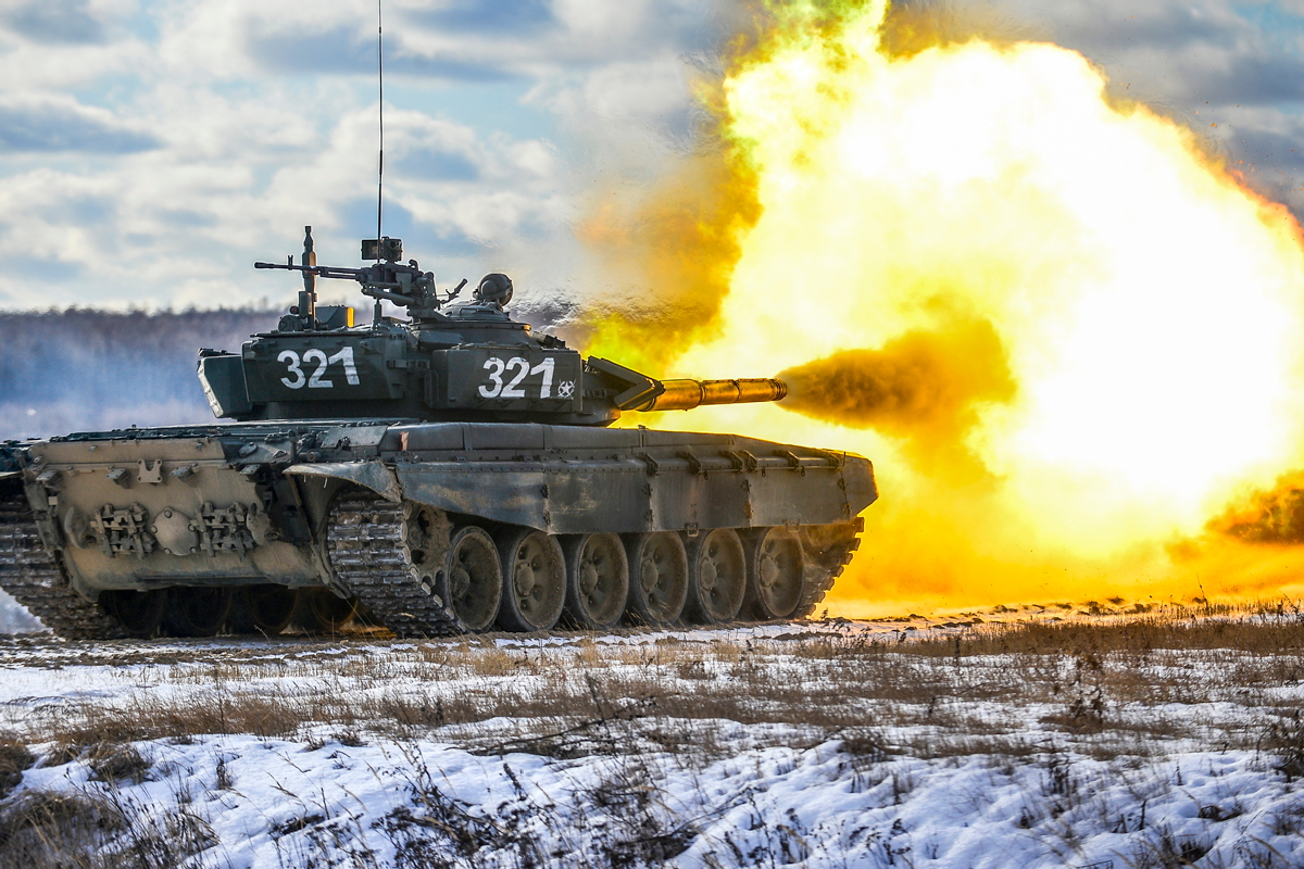 T-72B3 of the 2nd Guards Motorized Rifle Division.